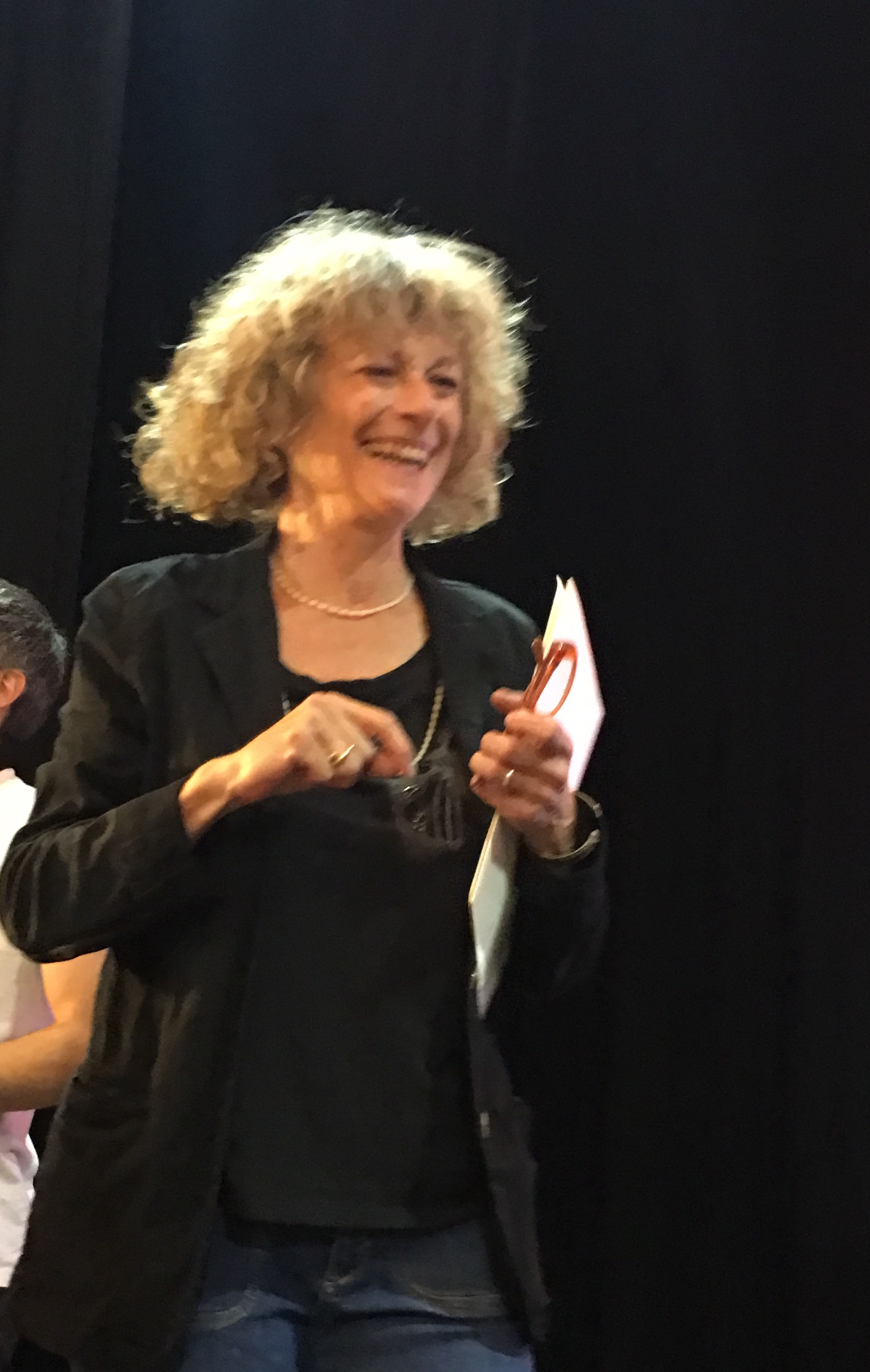 Paoloa Cavalieri at the conference Le spécisme en question organized by Pour l'Égalité Animale (PEA) in Geneva September 2, 2017 after her talk « Reflecting on the Politics of Animal Liberation ».